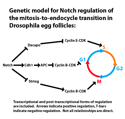 Molecular mechanisms by which Notch signalling triggers the mitosis-to-endocycle transition